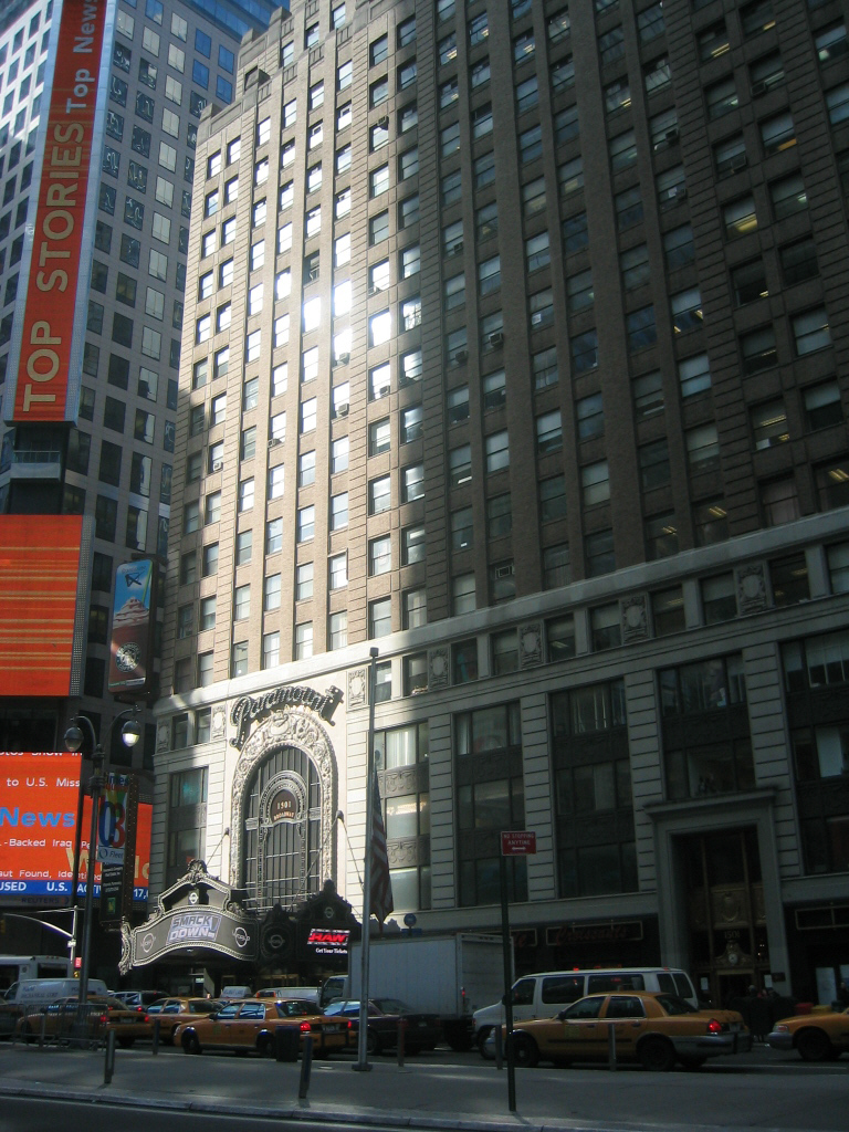 Paramount Building (former Paramount Theatre) Times Square, Manhattan, New York City